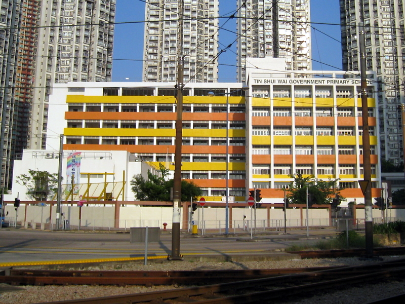 Tin Shui Wai Government Primary School 天水圍官立小學